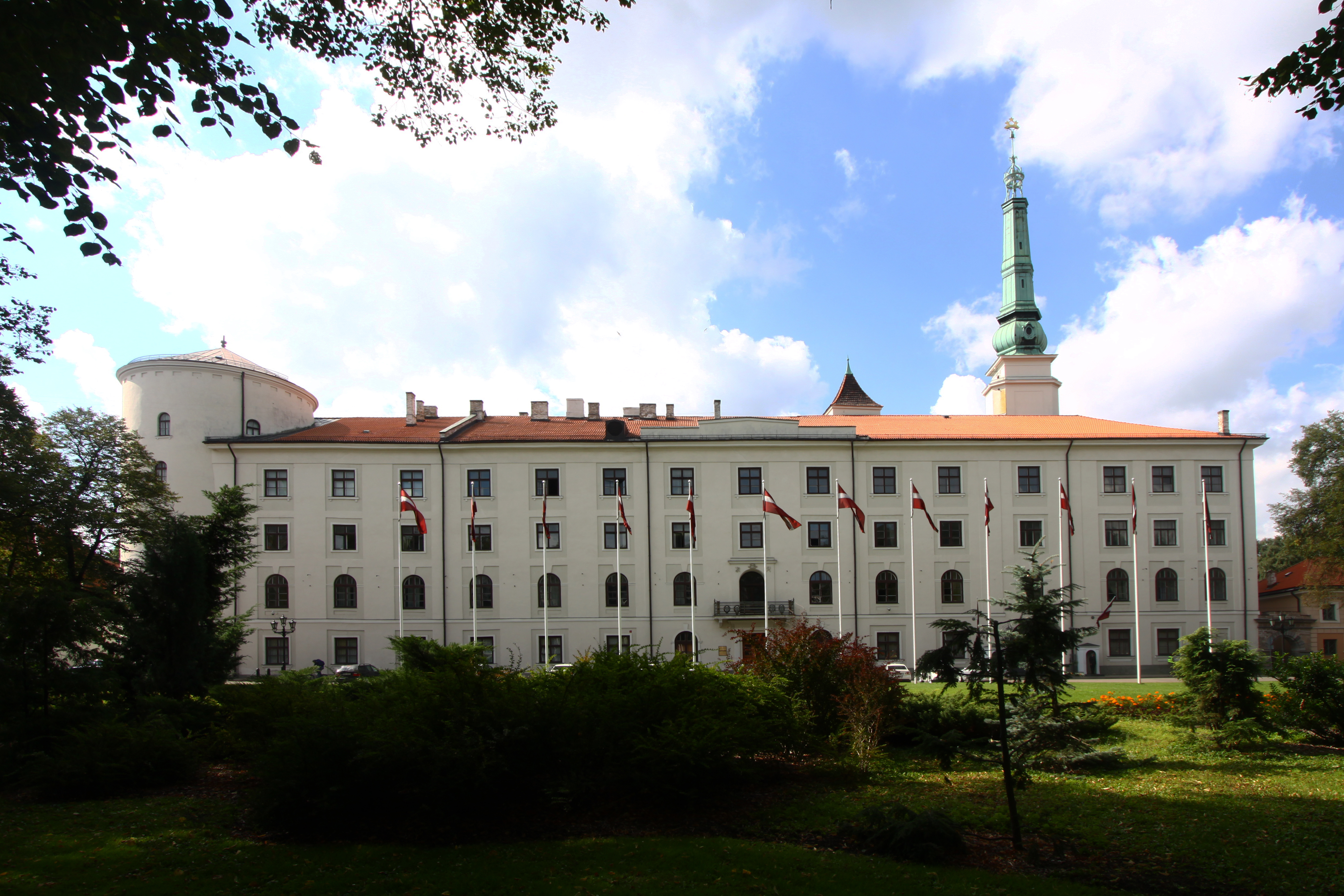 Riga castle, 2011